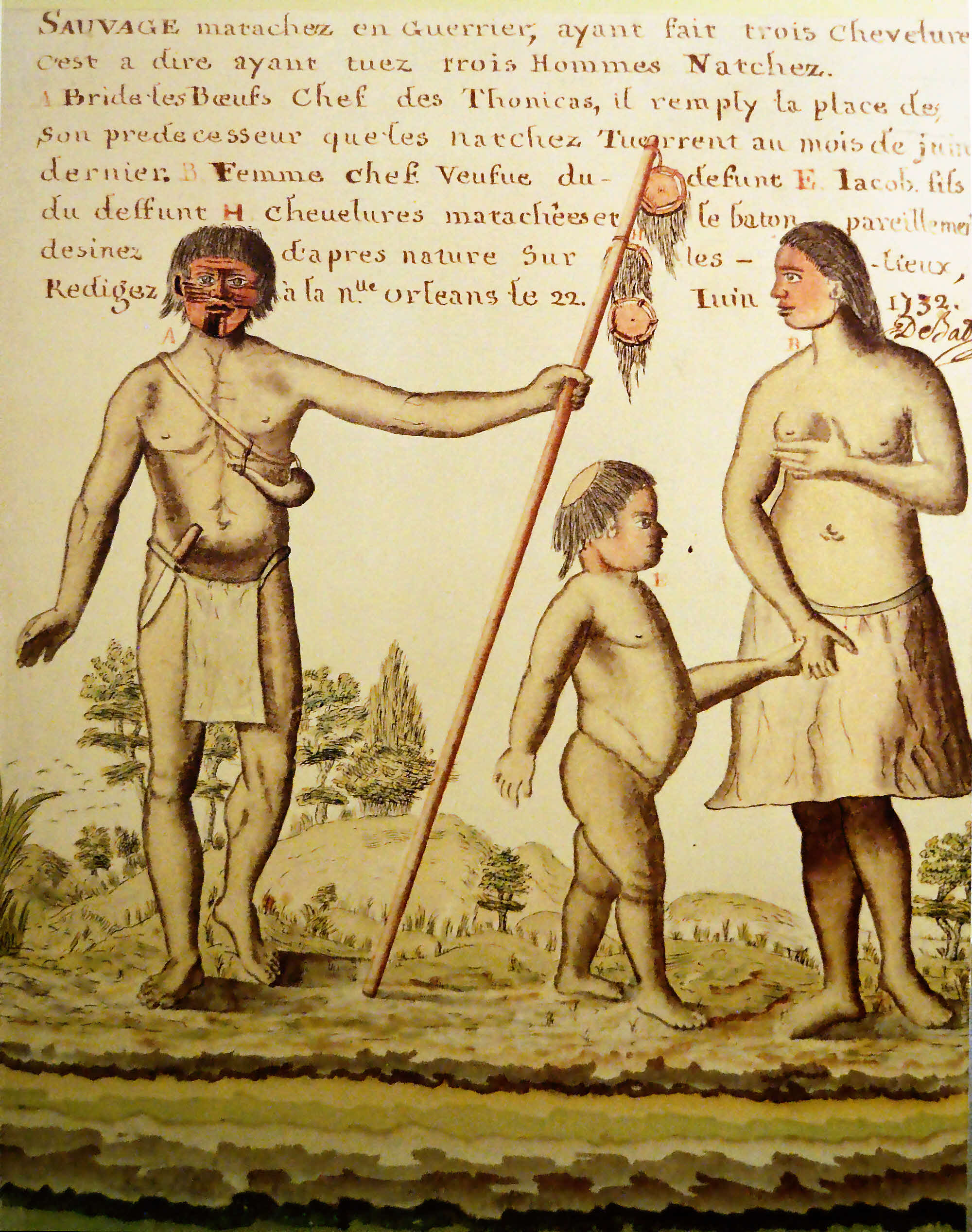 "Sauvage matachez en Guerrier" savage in warpaint